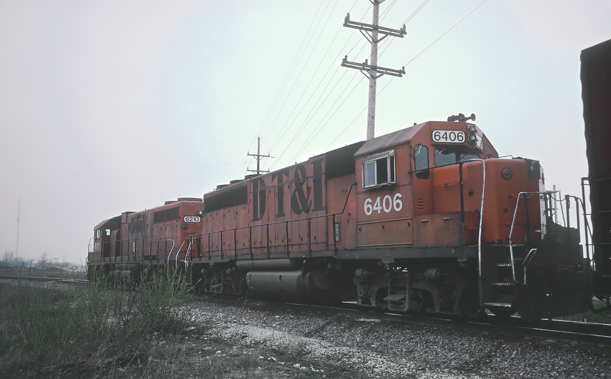 A Roger Puta Photograph